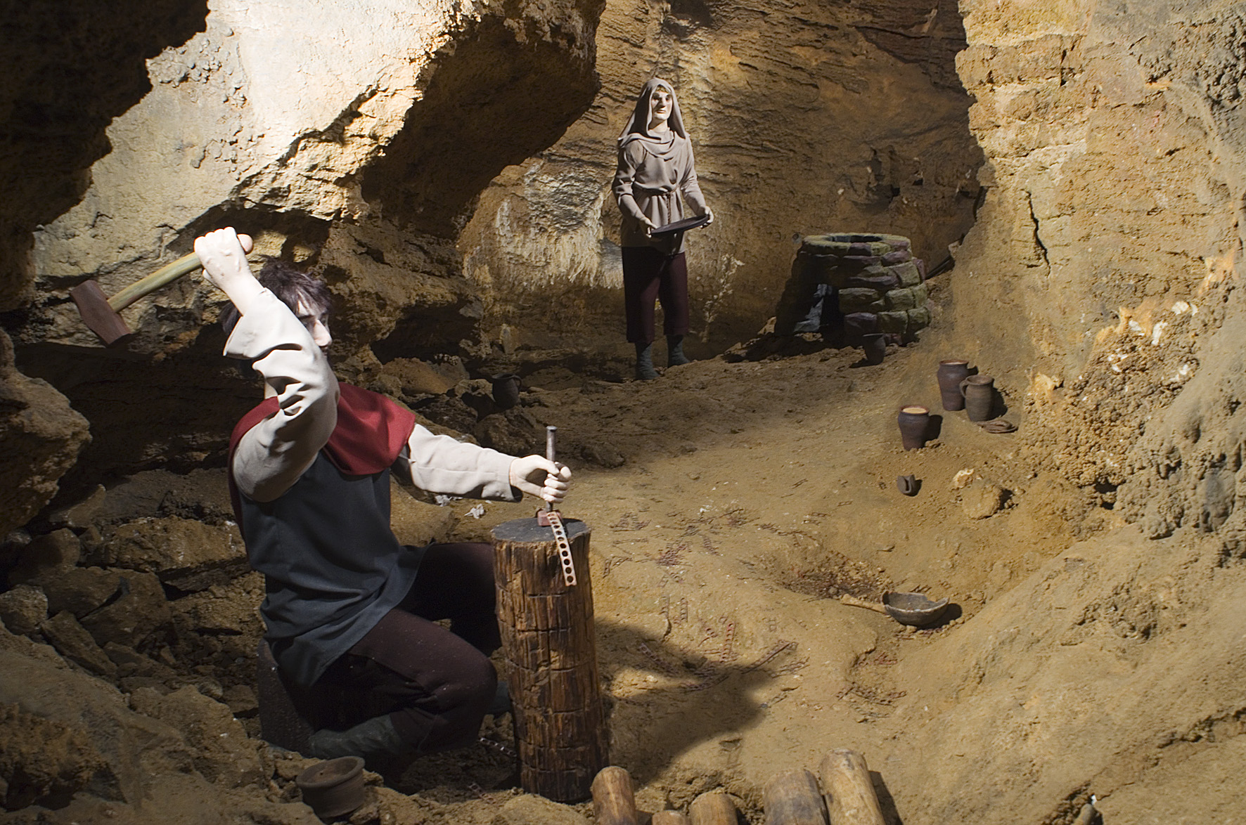 Reconstruction of medieval counterfeiting workshop in Koněprusy caves, Czech Republic